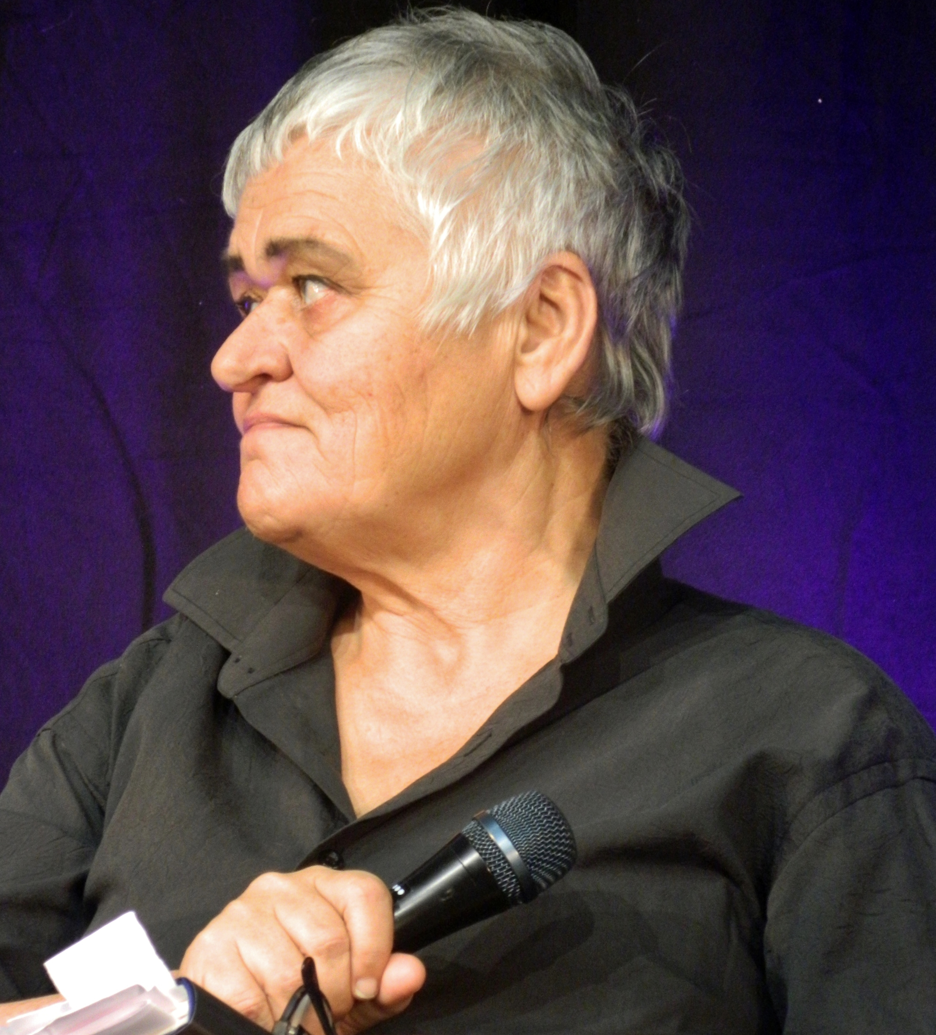 Pirkko Saisio at Helsinki Book Fair, 2016